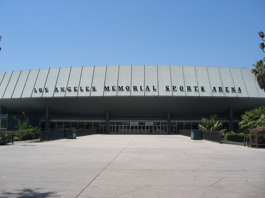 Los Angeles Memorial Sports Arena, Los Angeles